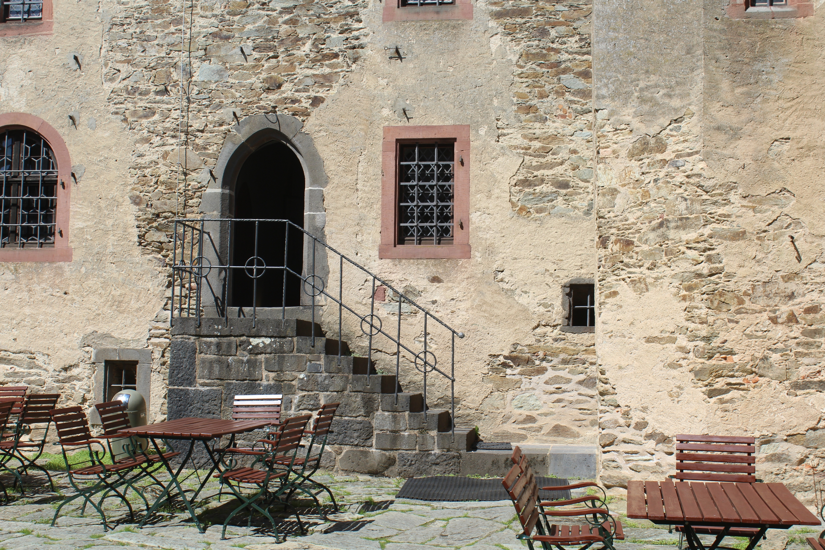 Kronberg im Taunus, castle, on the inner courtyard